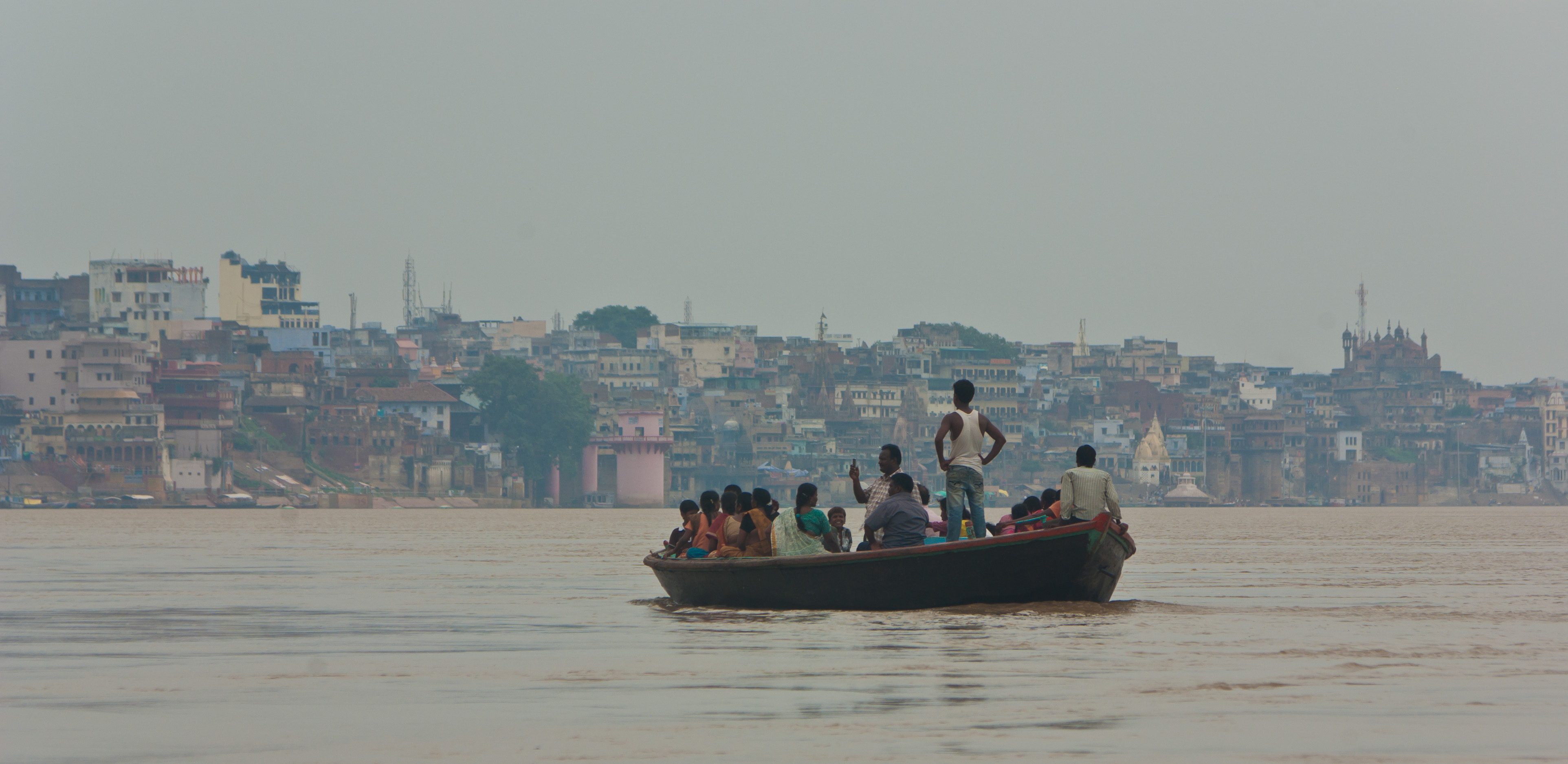 Ghats in Varanasi